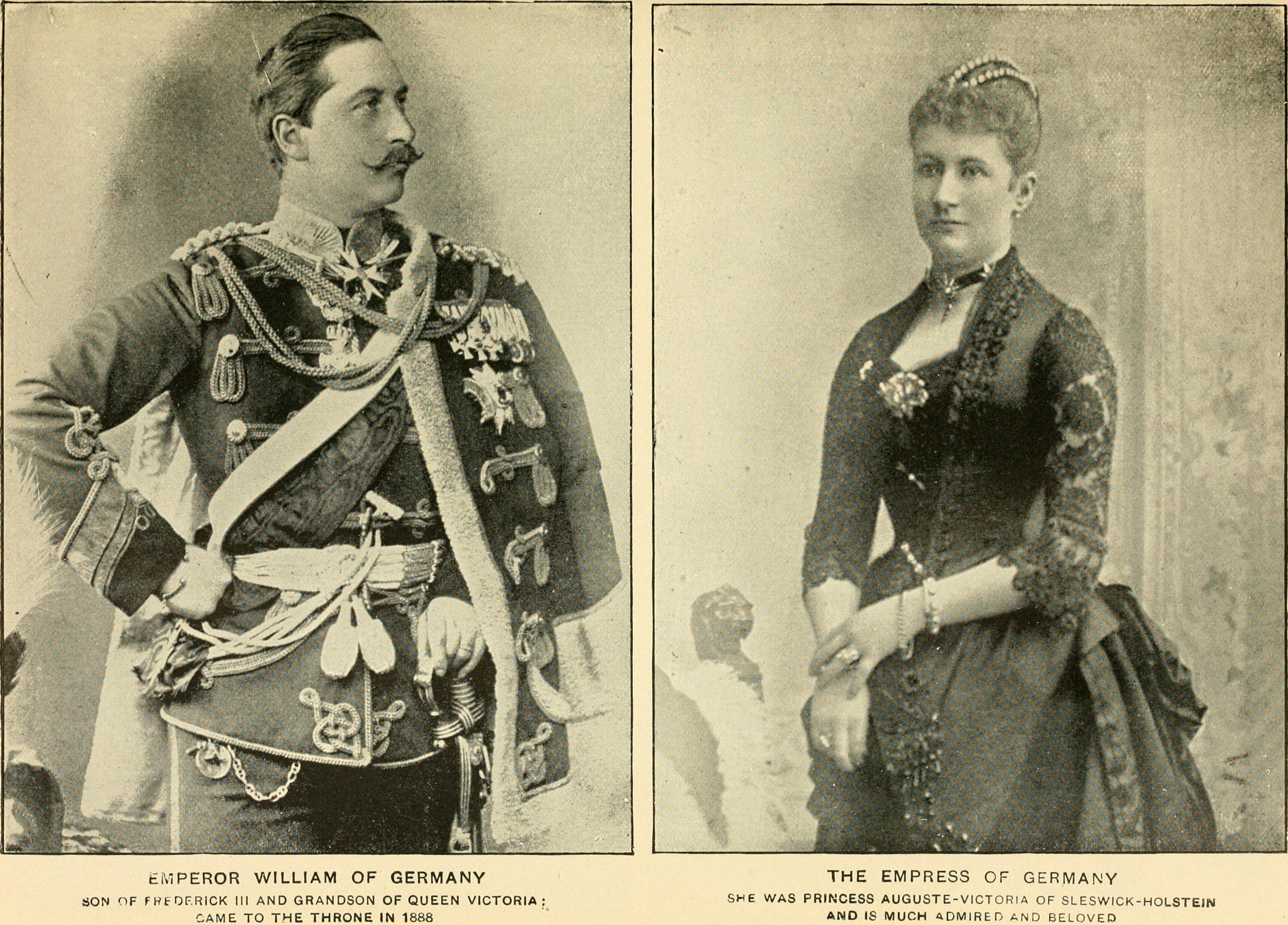 Wilhelm II, German Emperor and Empress Augusta Viktoria, c. 1900 Title: Grandest century in the world's history; containing a full and graphic account of the marvelous achievements of one hundred years, including great battles and conquests; the rise and fall of nations; wonderful growth and progress of the United States ... etc., etc Year: 1900 (1900s) Authors: Northrop, Henry Davenport, 1836-1909 Subjects: Nineteenth century Publisher: Philadelphia, Pa., National publishing co Text Appearing Before Image: ual peace, and itwas generally conceded that an import-ant step had been taken in that direction. The deliberations of the conferencewere long and earnest, and one of theresults was the formulation of articlesof arbitration which pointed out themethods of procedure between the na-tions in the settlement of disputes. Itwas considered a sarcastic commentaryupon this well-meant attempt to abolishwar that the struggle between the Eng-lish and the South African Republic?should have followed so quickly. It wa;^evident that the time was not yet ripifor fully inaugurating the principle Oiarbitration. A moral result, however, was gainedby the great nations assembling in con-vention to discuss the question of dis-armament and to promote a generalpeace. This is the highest point gainedin the efforts ox the worlds philanthro-pists, statesmen and rulers, to disbandtheir armies and silence the thunder-roarof war. So much at least was gained,and perhaps more, that will be manifestin the near future. Text Appearing After Image: '